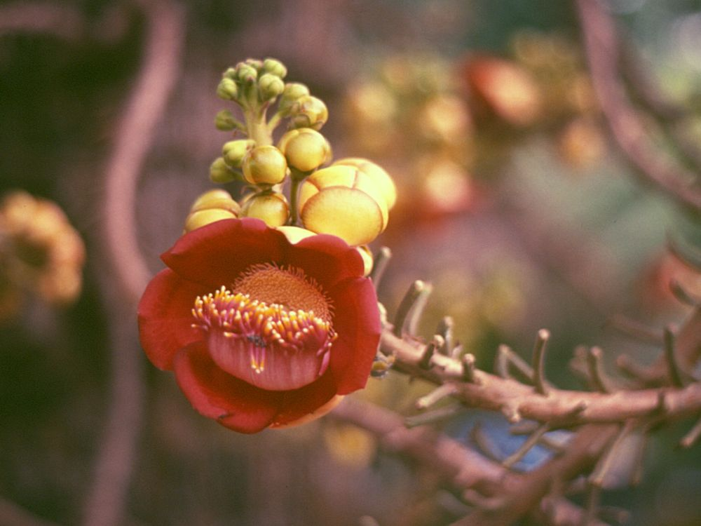 Kanonenkugelbaum (Couroupita guianensis), Lecythidaceae - Kambodscha/Cambodia, Phnom Penh, Königspalast/Royal Palace